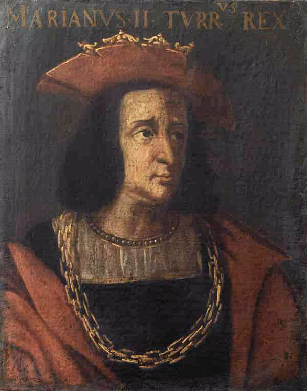 Judge of Giudicato of Logudoro (Torres)